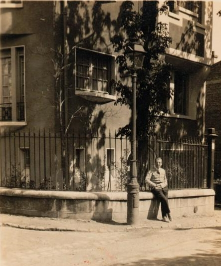 French composer Maurice Delage (1879-1961) in front of his home at No. 25 Grande Avenue de la Villa-de-la-Réunion, Paris 16e